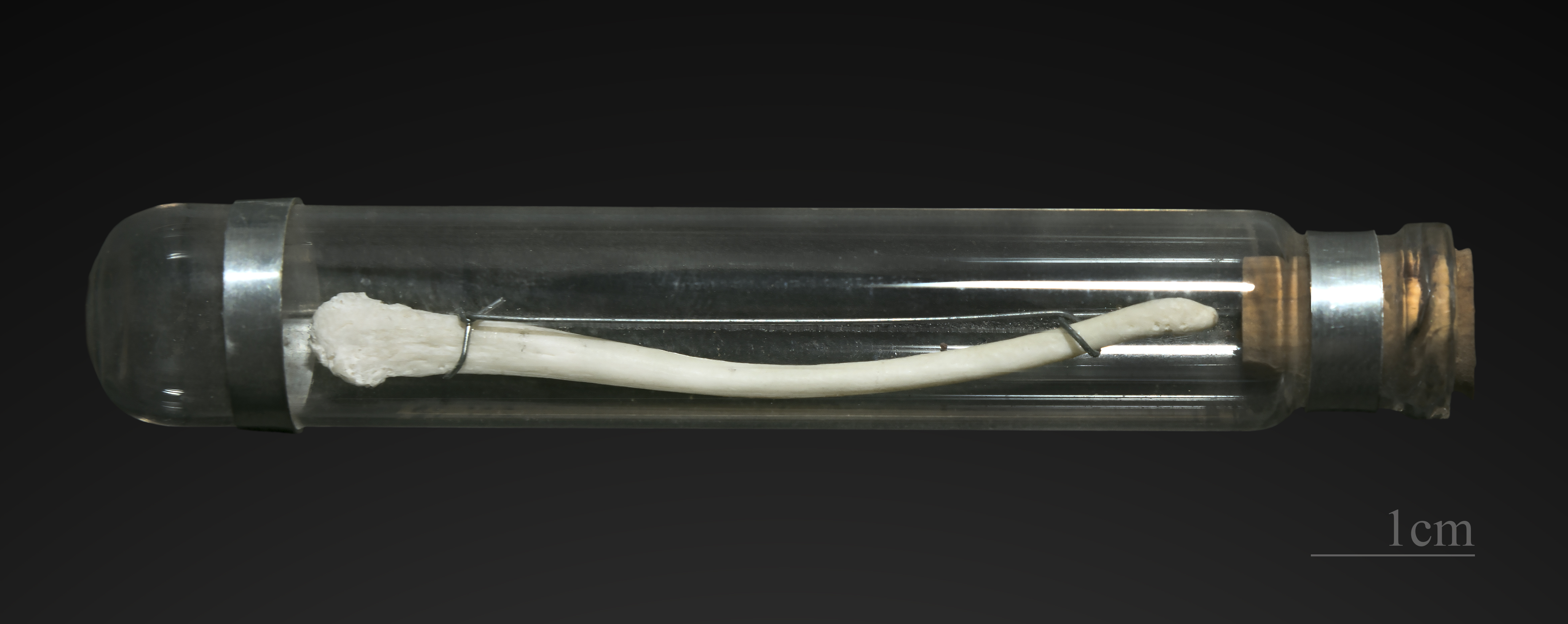 Japanese macaque - Penis bone Former collection of Armand de Montlezun (1841-1914)